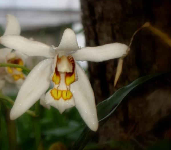 Orchid, Sandakphu,West Bengal, India